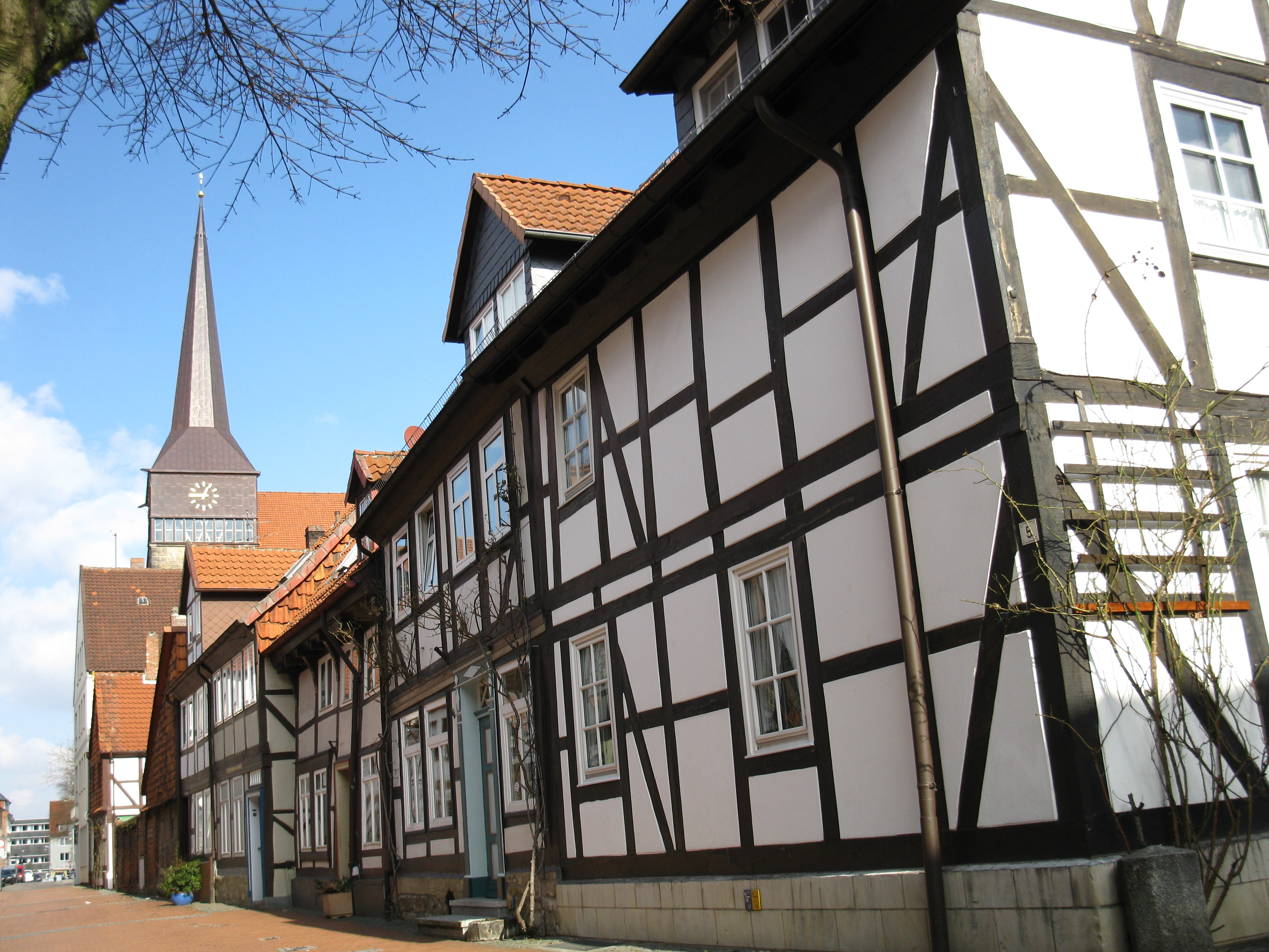 Eastern part of Knollenstrasse,Lamberti Church (1474-1488) Hildesheim